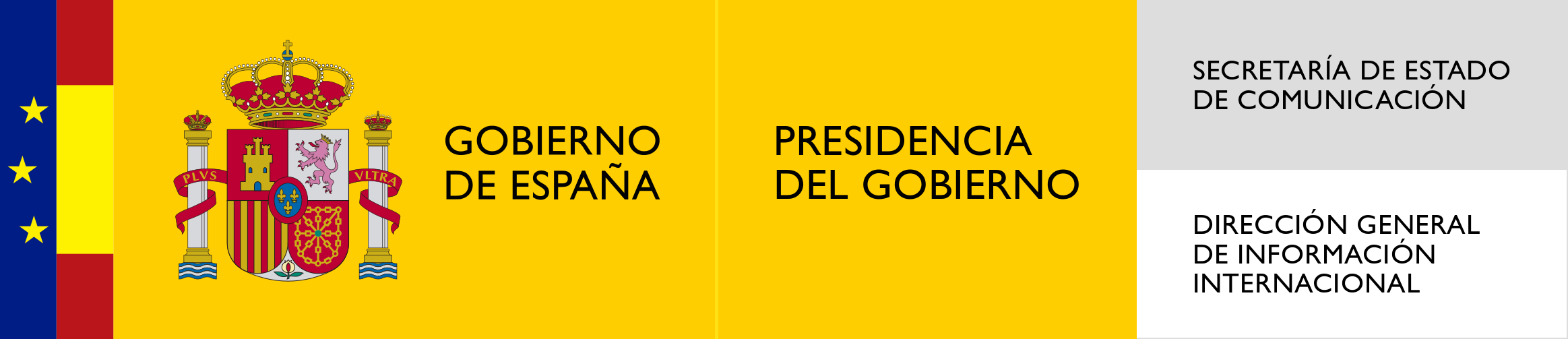 Logo of the Directorate-General for International Information of the Government of Spain.